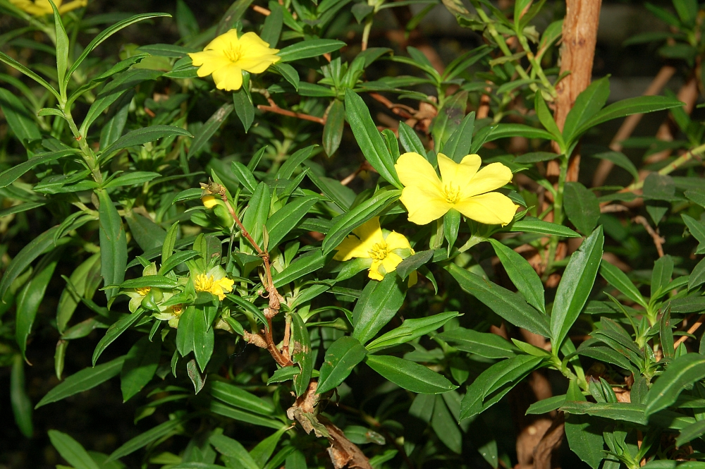 Hibbertia cuneifolia, known from West Australia, photographed in the Botanical Garden Berlin, Germany